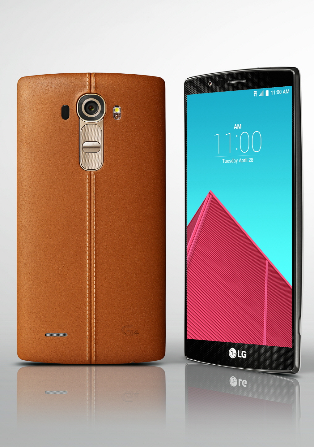 LG G4 (brown leather cover)